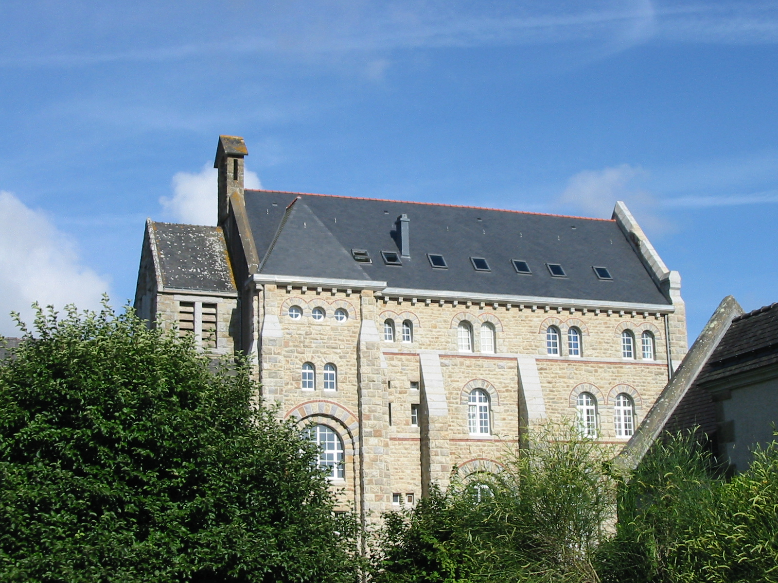 Plouharnel, Morbihan, Brittany,France